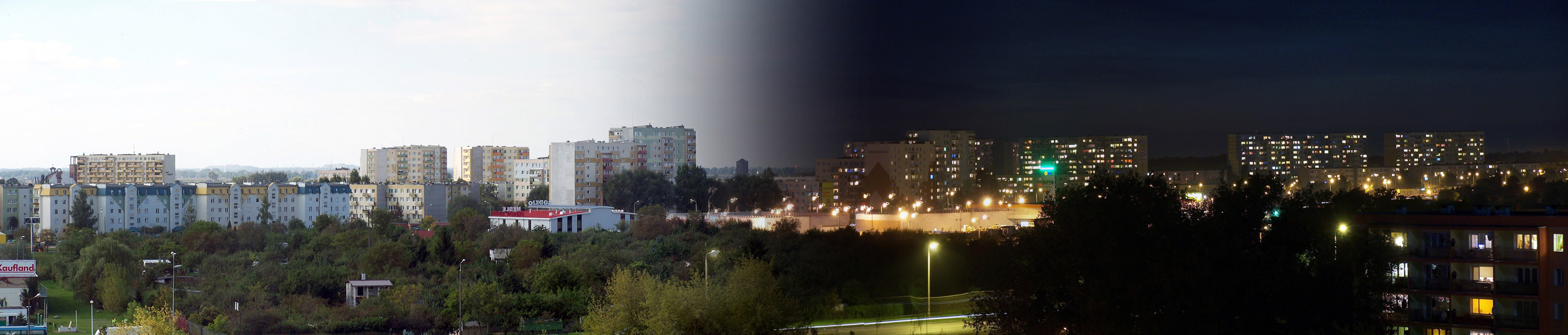 Skyline of the Rąbin estate in Inowrocław by day and night.